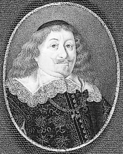 Portrait of King Władysław IV Vasa.